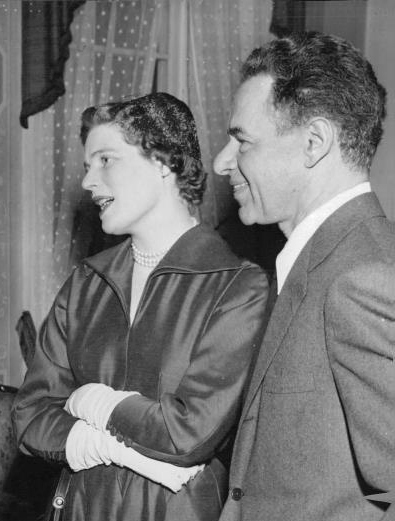 Reception for Nobel Prizes. Hans Krebs with wife Margaret, Mary Soames and Fritz